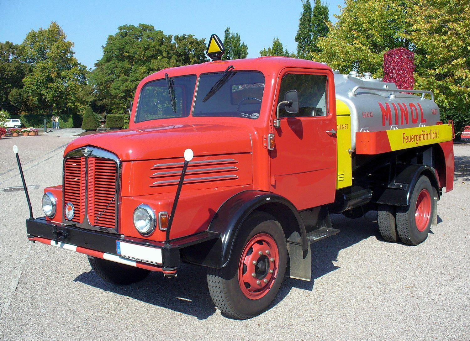 IFA S4000 Tank Minol